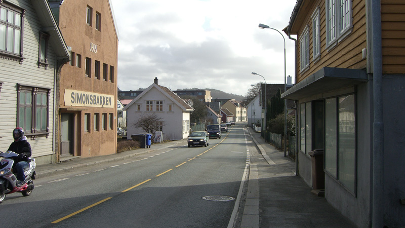 Strandgata in Sandnes, Norway